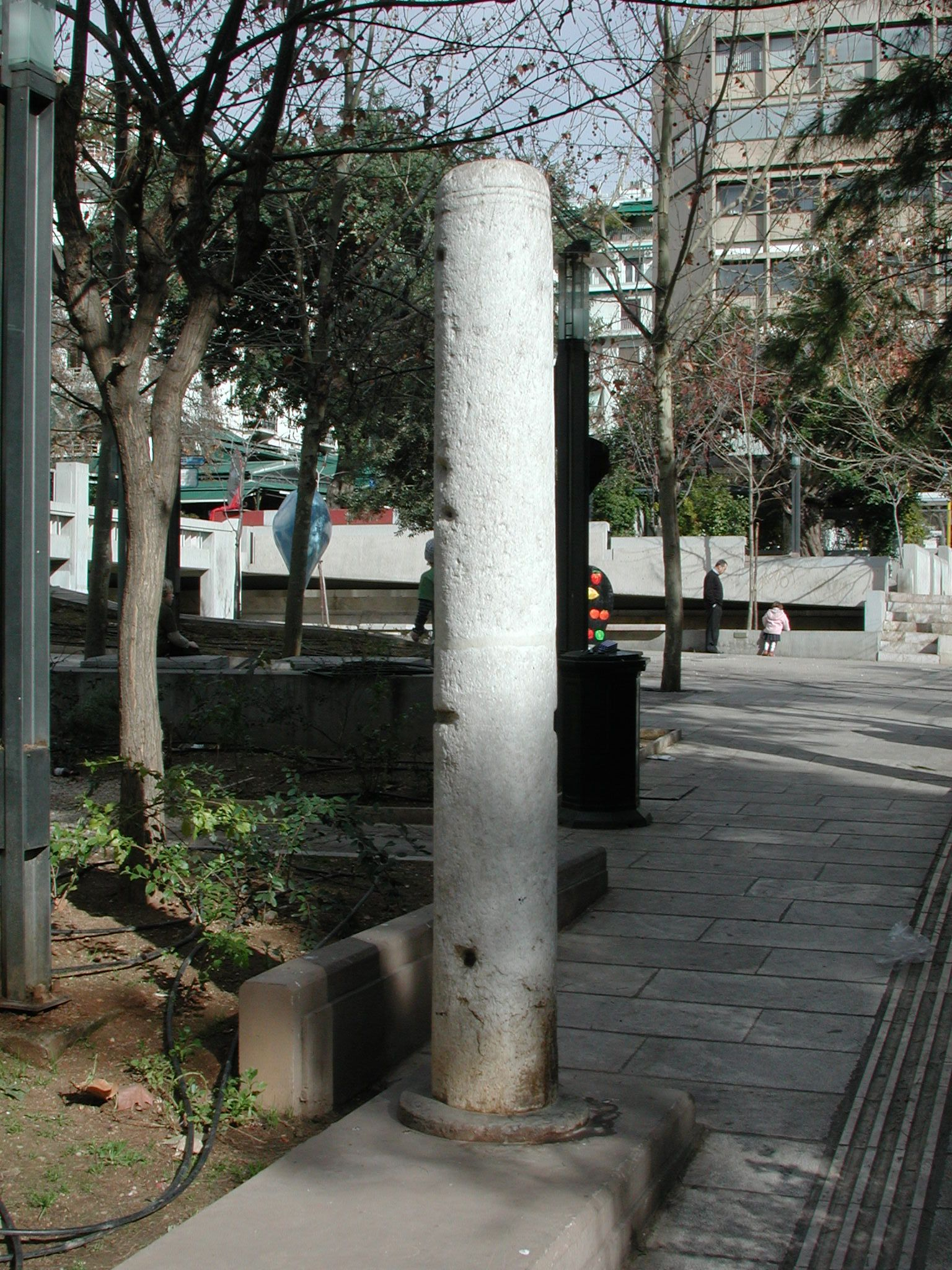 The column from which Kolonaki got its name. Kolonaki square, Athens.